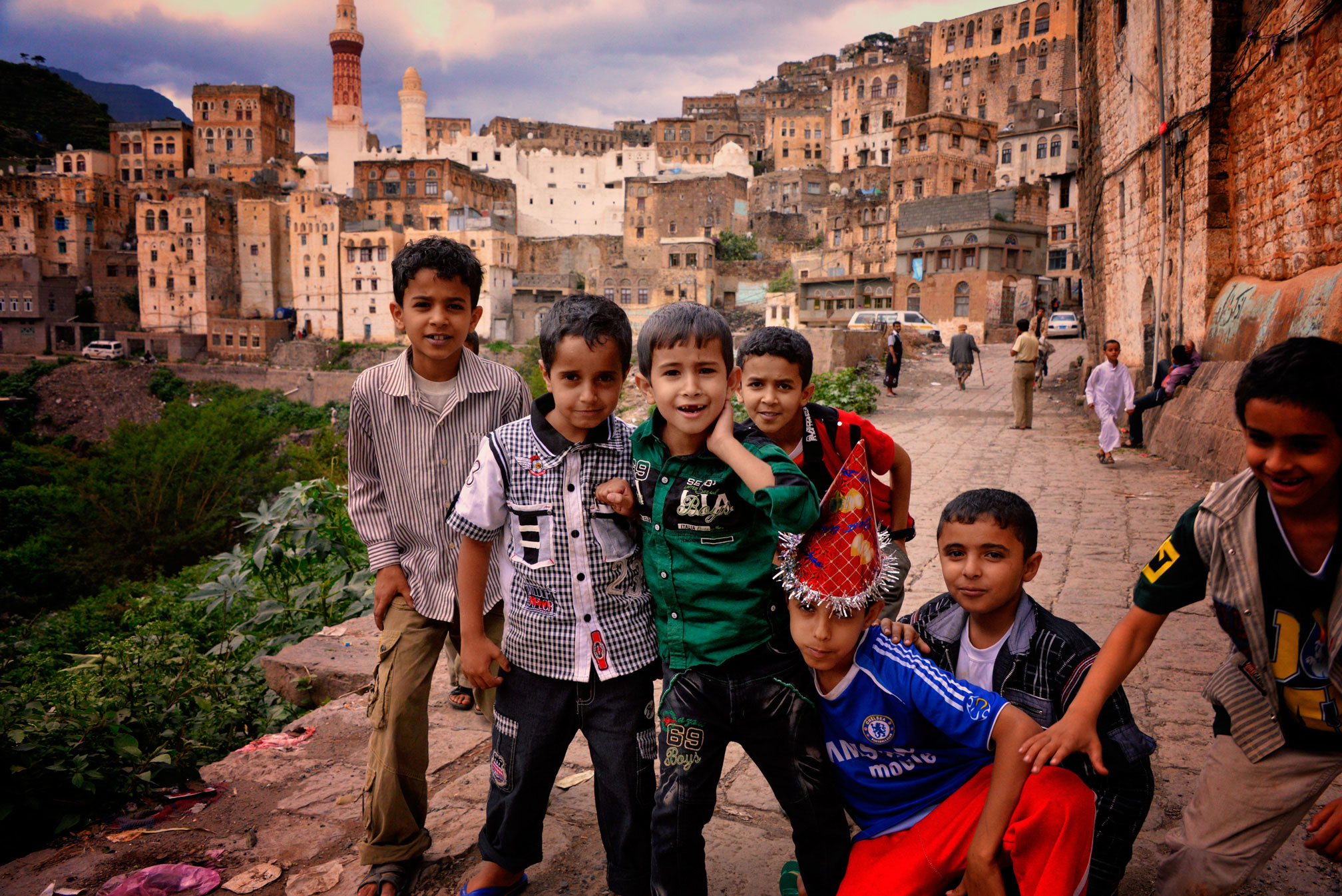 Boys in Jibla, Yemen